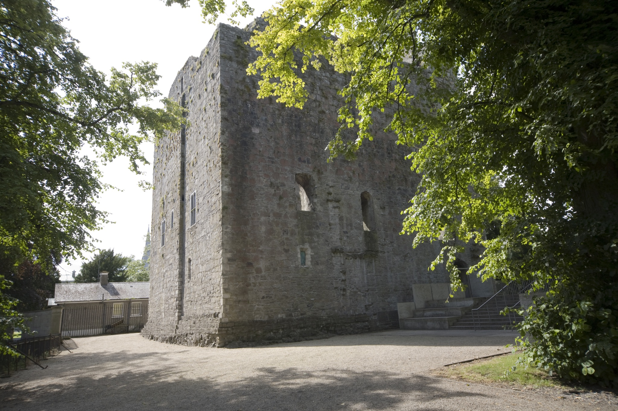 The town is a major historical centre, with Maynooth Castle and Carton House: two former seats of the Dukes of Leinster. The castle was a stronghold of the 16th century historical figure Thomas FitzGerald, 10th Earl of Kildare better known as Silken Thomas. The castle was taken by force in 1535, after the rebellion of the Earl. The town is just inside the western edge of The Pale. The most important historical buildings in the town are those of St. Patrick's College some of which antedate the foundation of the college, while others are in the late Georgian and neo-Gothic revival style. The new range of buildings was erected by A.W.N. Pugin in 1850 under a commission from then college president Laurence F. Renehan, while the highly important College Chapel was designed and completed by J.J. McCarthy during the presidency of Dr. Robert Browne in 1894. In the 1920s, the town was the unofficial home to the King's representative in Ireland, Domhnall Ua Buachalla, who declined to take up official residence in the Viceregal Lodge in the Phoenix Park, and whose family operated a hardware store in the town until 2005, the only store with an Irish language name in the town for many years. The famed Connolly's Folly is also near the town, although it is arguably in Celbridge, as it is much closer to it, but is covered by Maynooth's very large town boundaries.